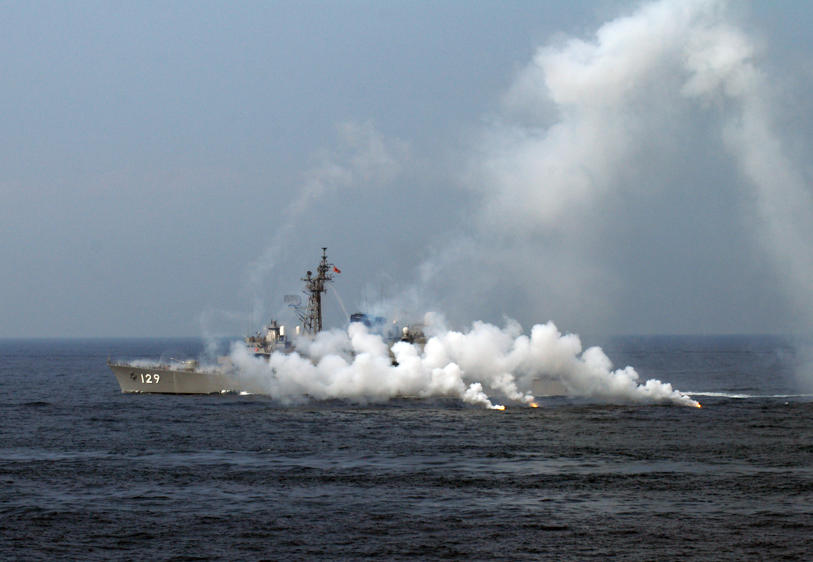 JS Yamayuki (DD-129) launches IR decoy flares at SDF Fleet Review 2006. Pentax *istD